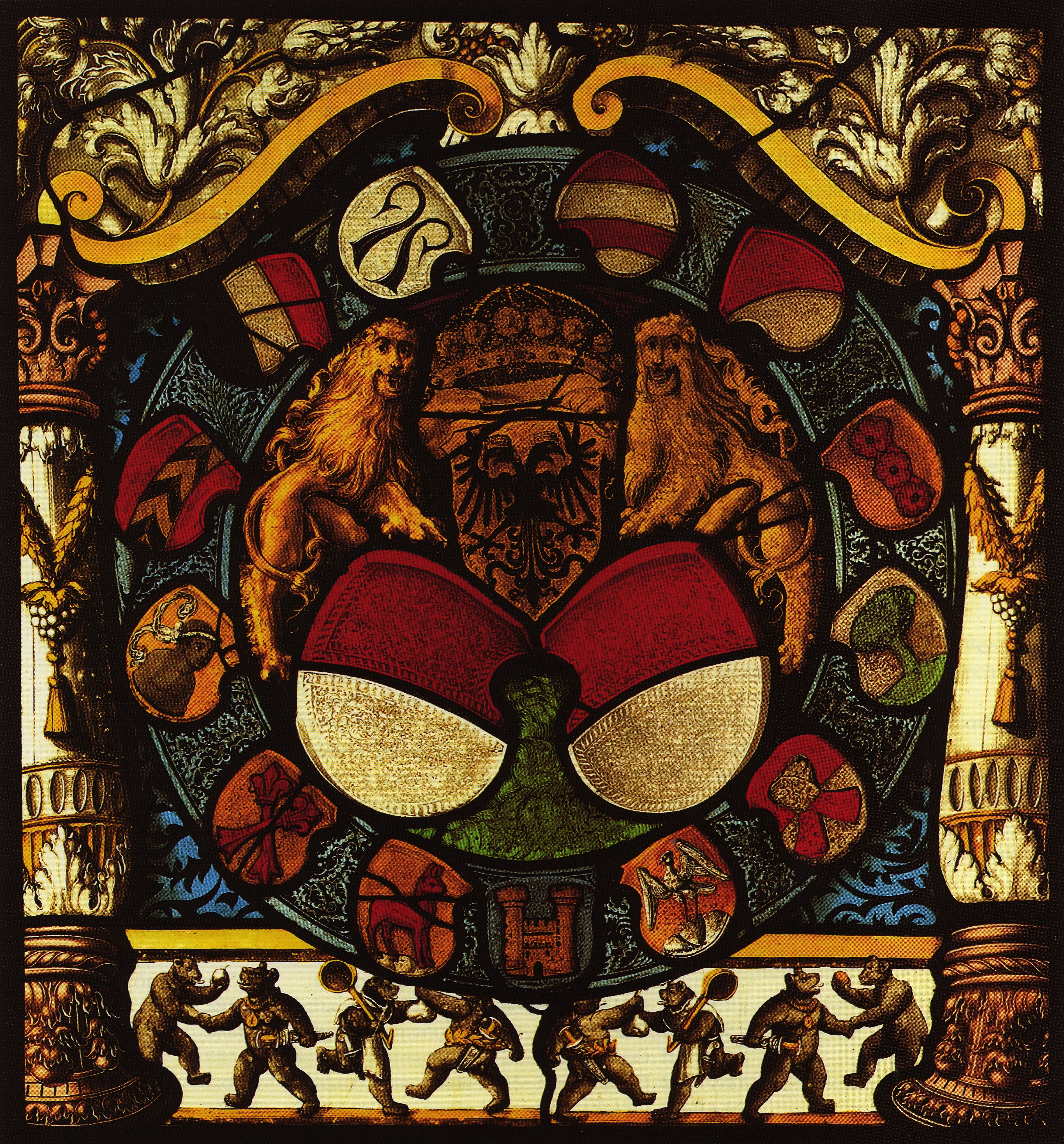 Stained Glaſs Plate ſhewing the Arms of Solothurn, its Bailiwicks, and the Holy Roman Empire, made between 1510 and 1530; kept in the Cellar of the Townhall at Solothurn.